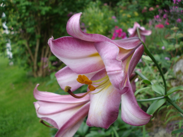 'Pink Perfection' (J.deGraaff, c.1950)